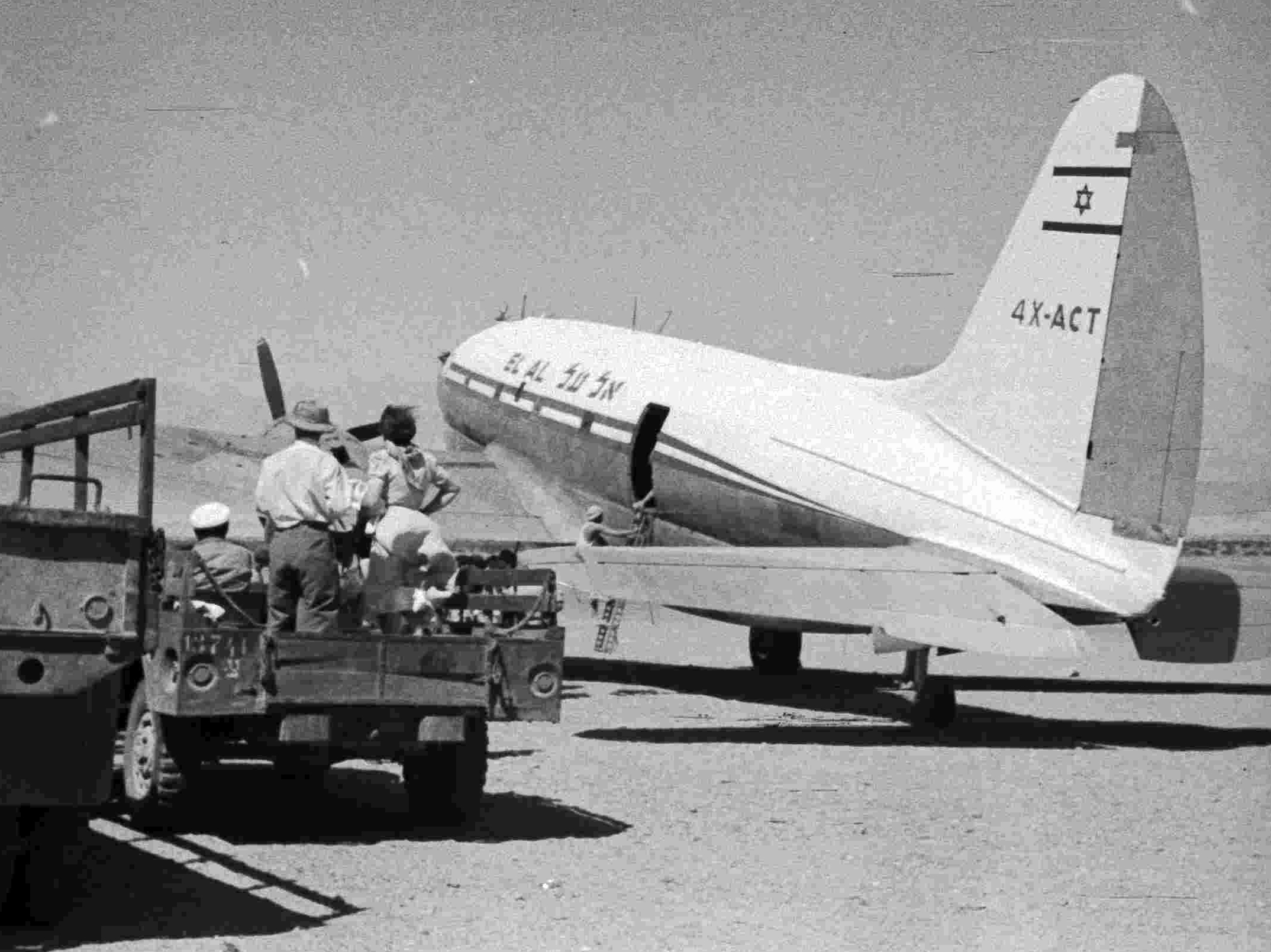 4X-ACT C-46 Commando operated by El-Al in Eilat Airport (Israel) (~1952)